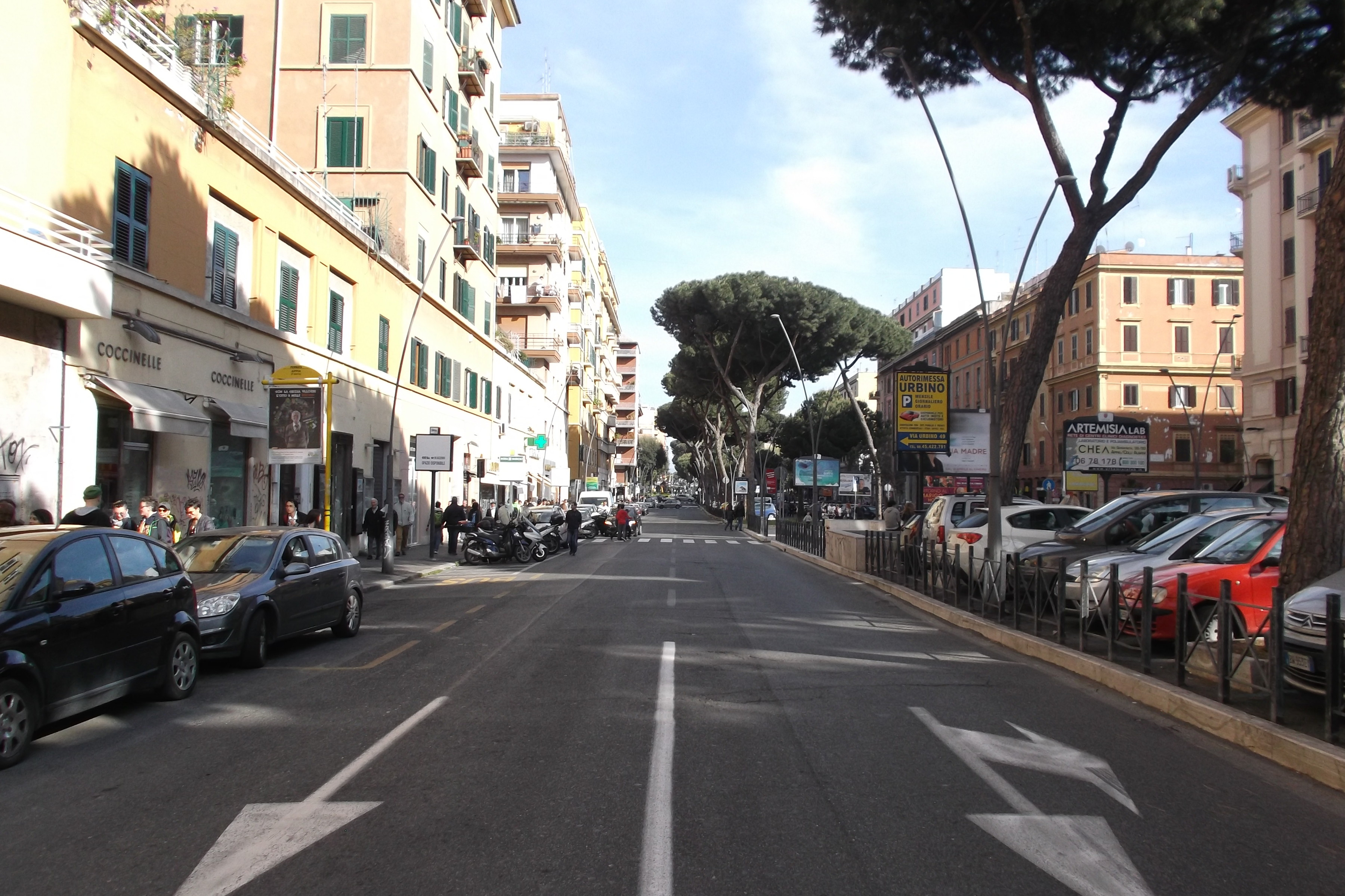 The very beginning of via Appia Nuova in Rome